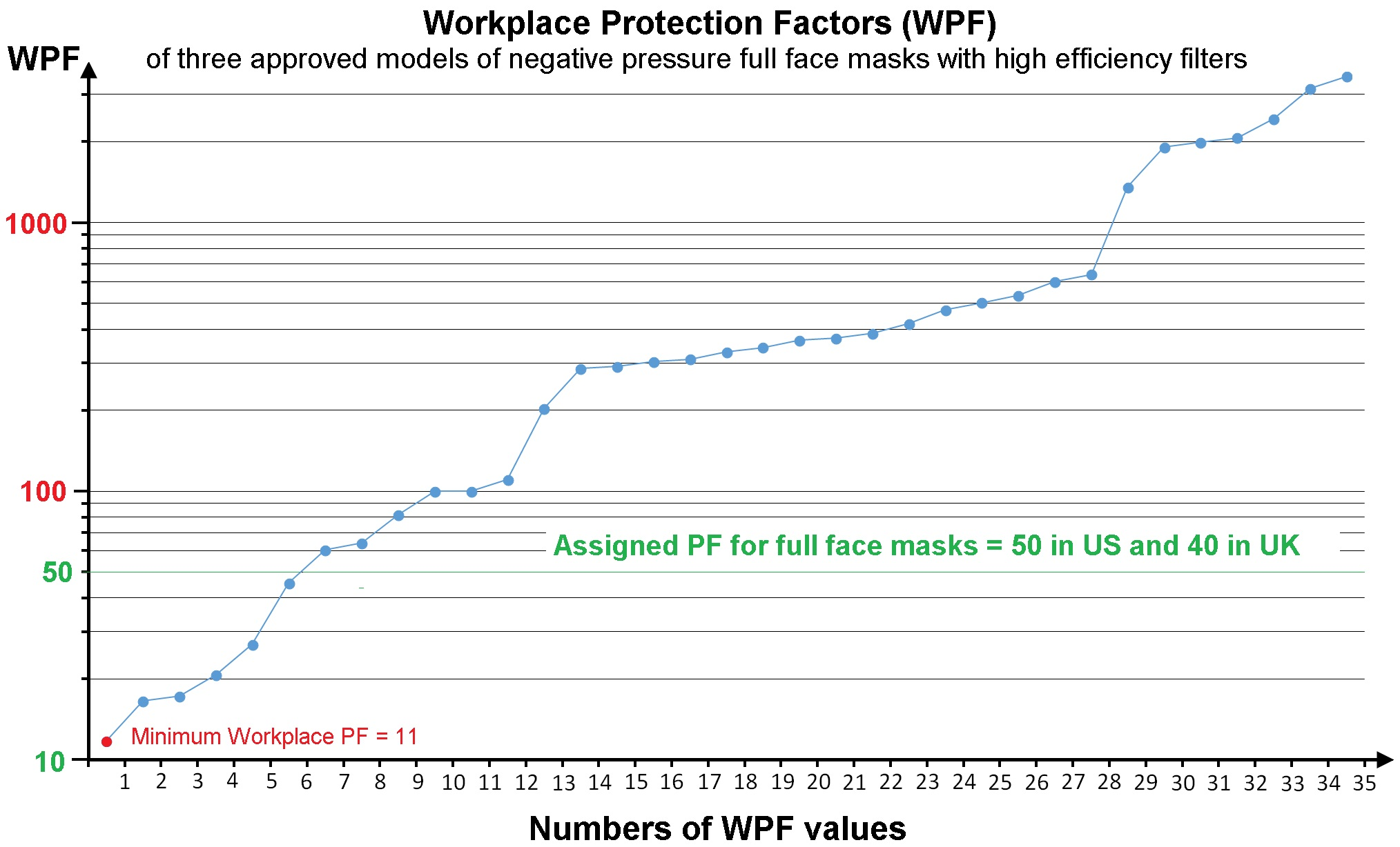 Results of respirator Workplace Protection Factors (WPF) measurement. Workers used three approved HSE negative pressure full face masks. Minimal values of WPF for each models were 11, 17 and 26. These results are made strictly limit the scope of permissible use of such respirators - from 900 to 40 OEL (in BS 4275-1997). Source: The Annals of Occupational Hygiene (1990) Vol. 34(6) pp. 541–552.